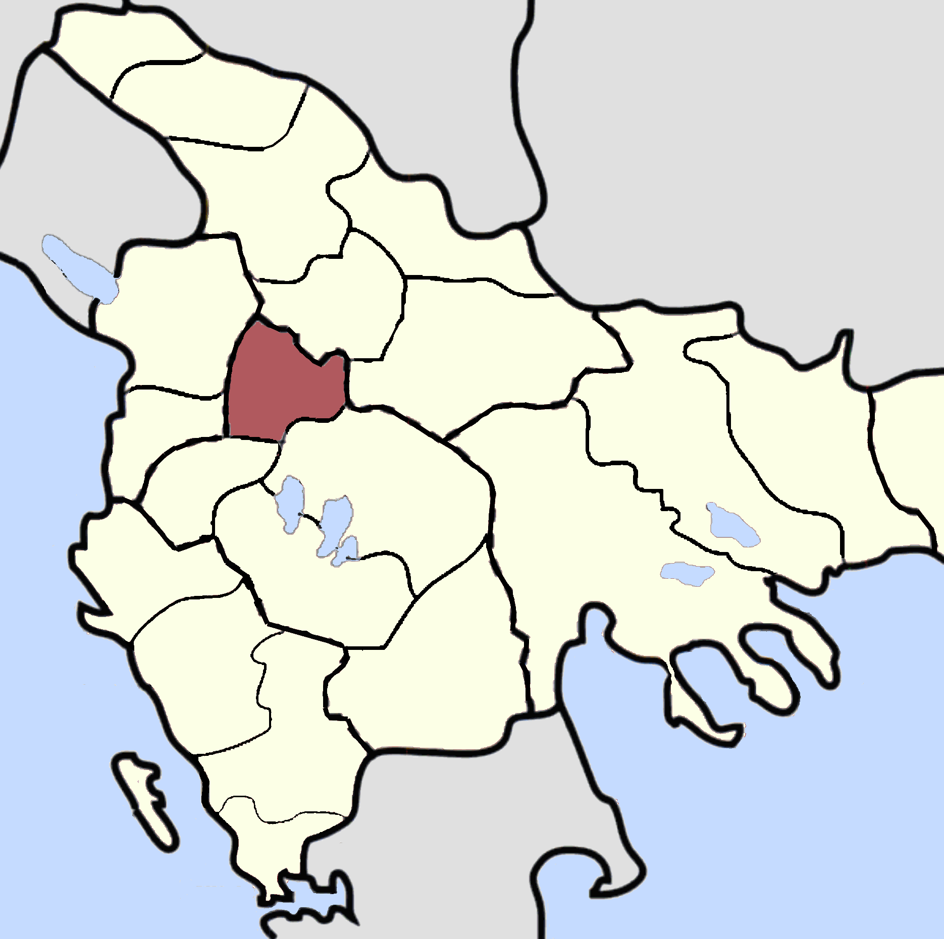 XY Sanjak, Ottoman Empire (late 19th century). Source: The Crescent and the Eagle- Ottoman Rule, Islam and the Albanians, 1874-1913 at Google Books By George Gawrych